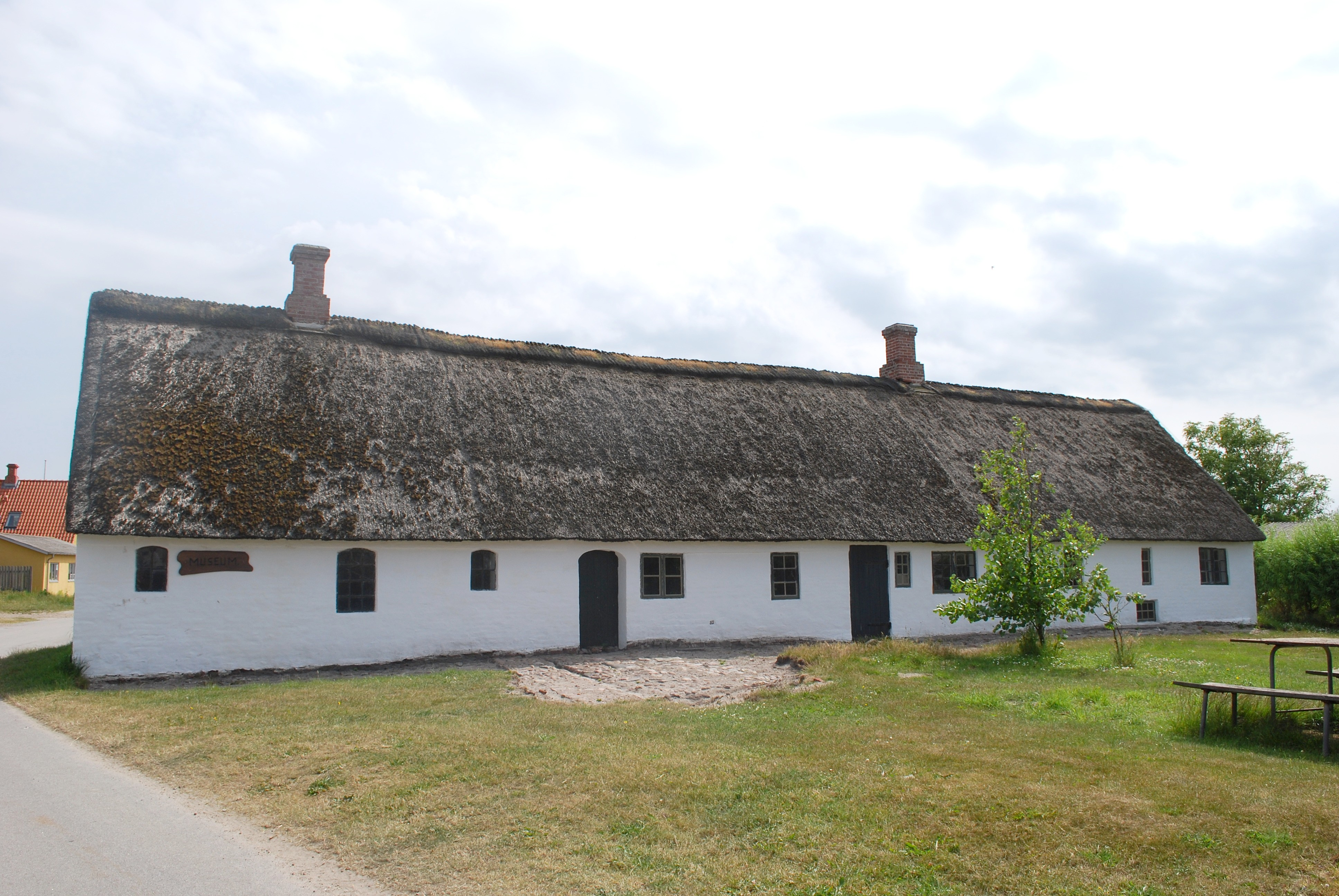 Mandø Museum, island of Mandø, Denmark